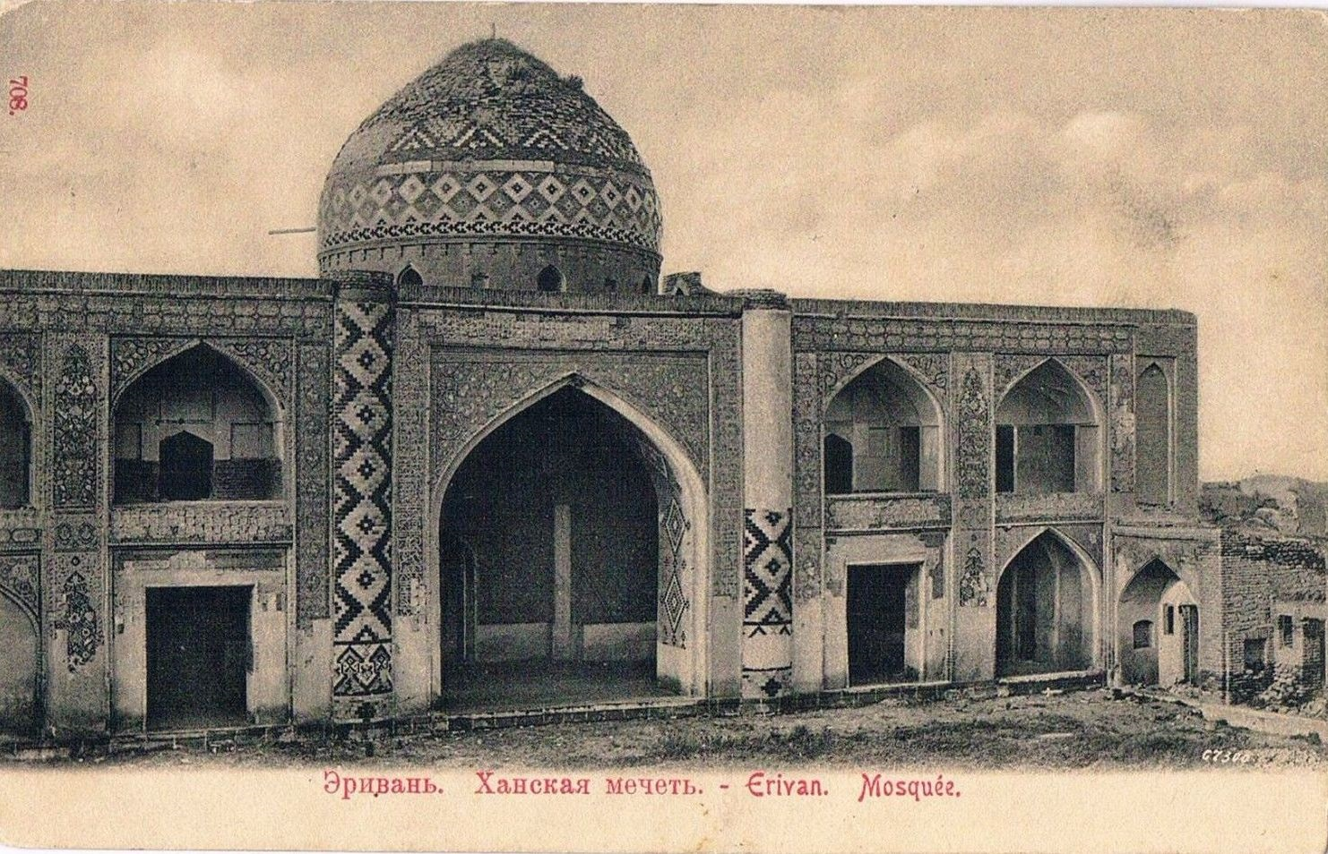 Blue Mosque of Yerevan (Khan Mosque) — in Yerevan (Eriwan), present day Armenia.